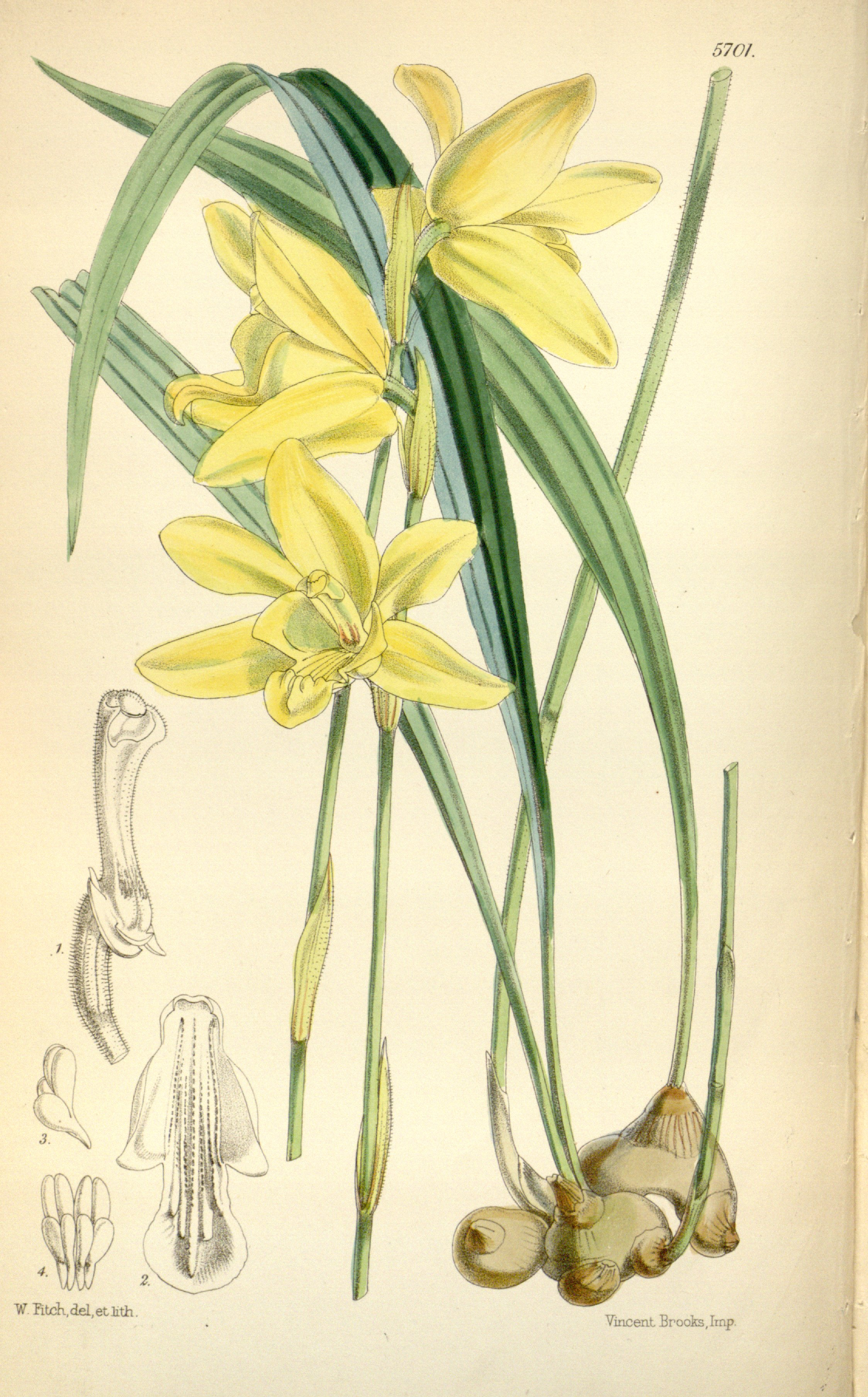 Illustration of Ipsea speciosa